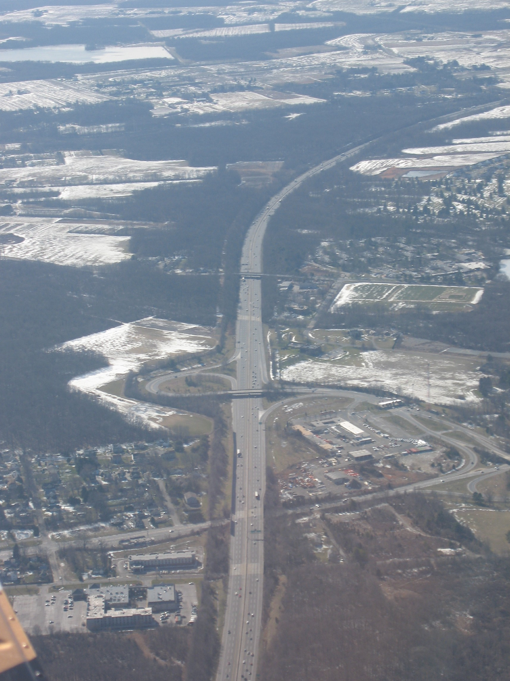 Aerial view of the New Jersey Turnpike near Hightstown, New Jersey